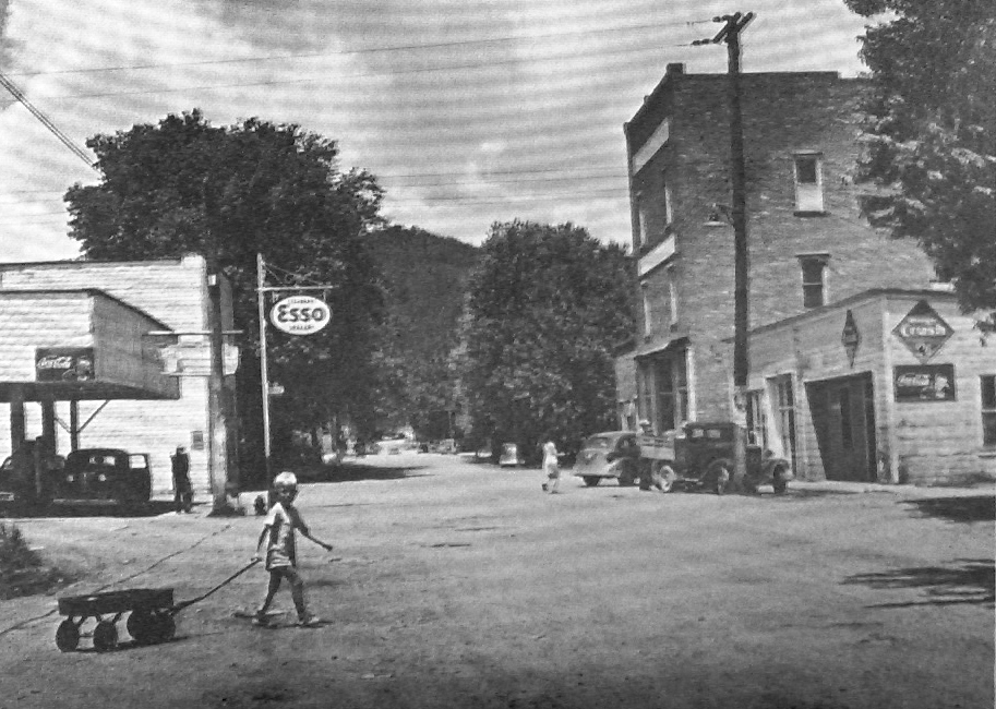 View along Main Street in "old" Butler, in Johnson County, Tennessee, USA. Butler was inundated when the Tennessee Valley Authority built Watauga Dam in the late 1940s.